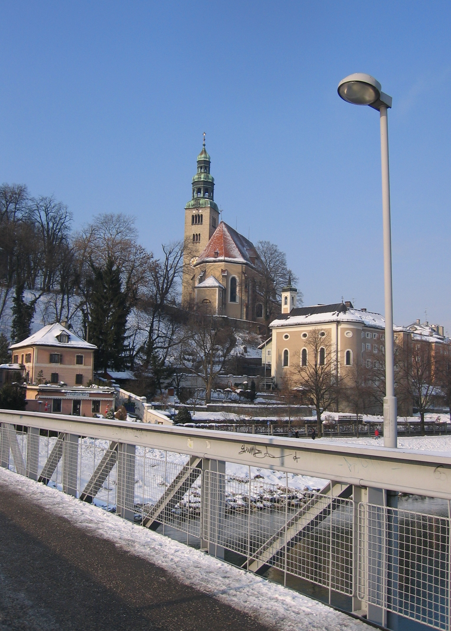 Muelln, Salzburg seen from footbridge Photograph by Gakuro